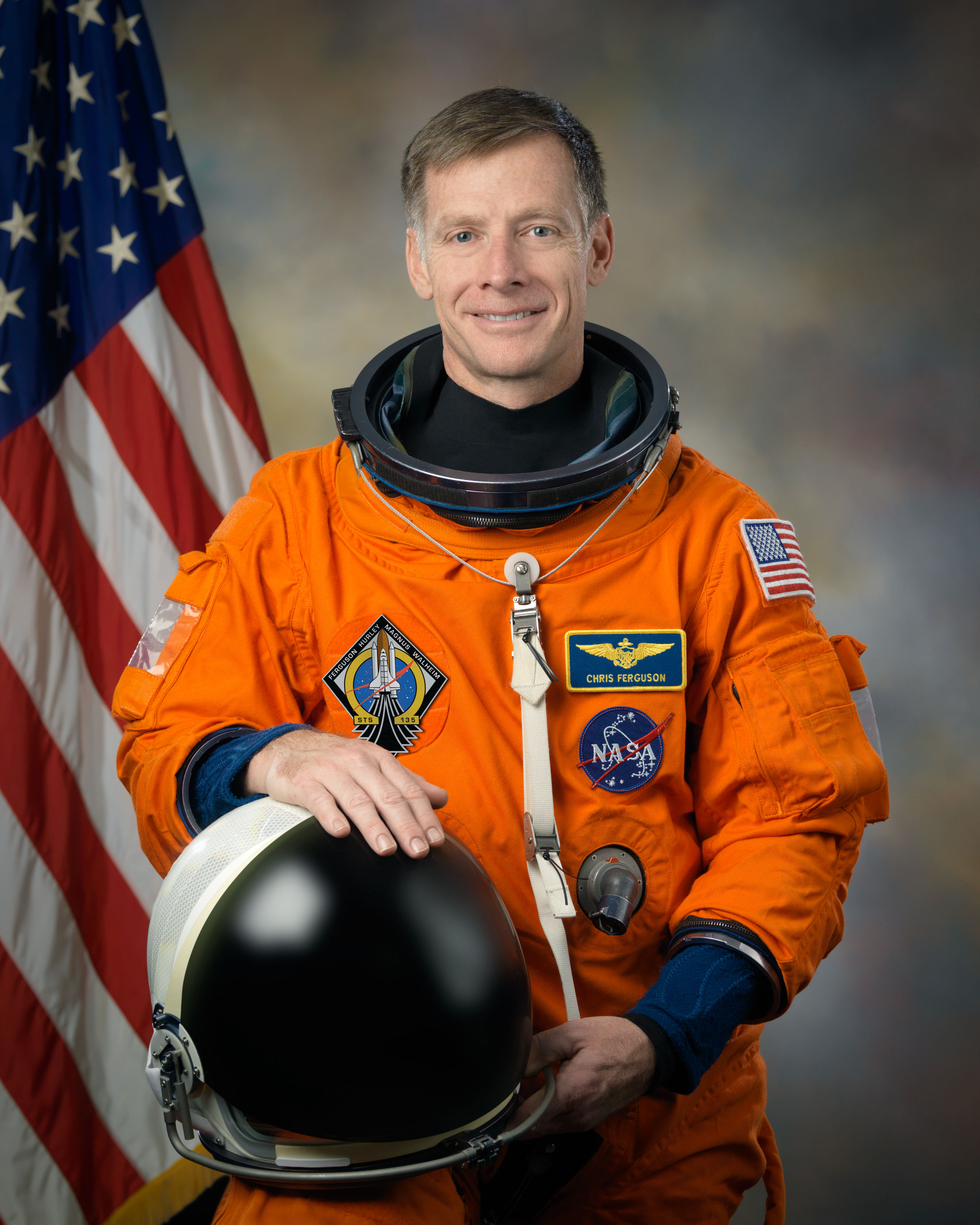 NASA astronaut Chris Ferguson, commander.